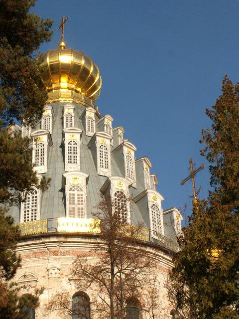 Bell tower of the Resurrection Cathedral of the New Jerusalem Monastery, in Istra, Russia.